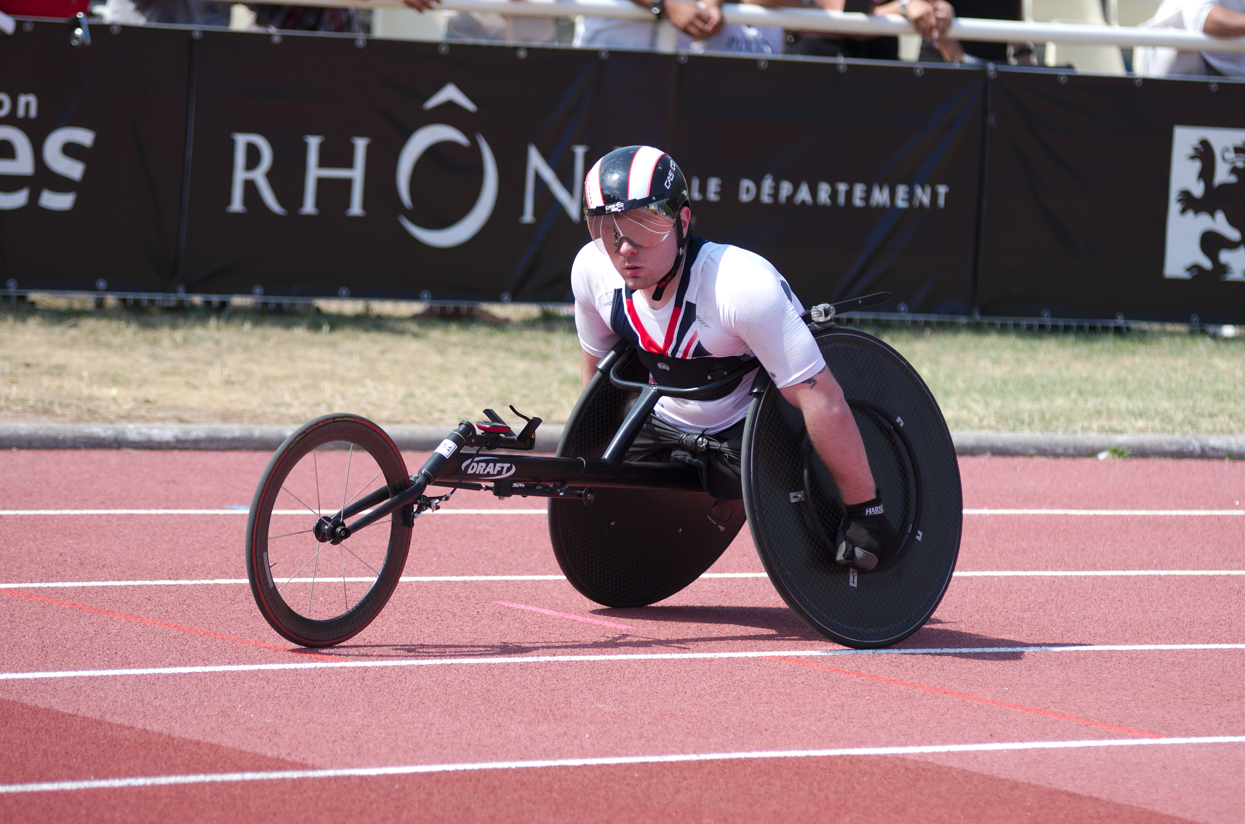 Mickey Bushell second of the Men's 100m - T53